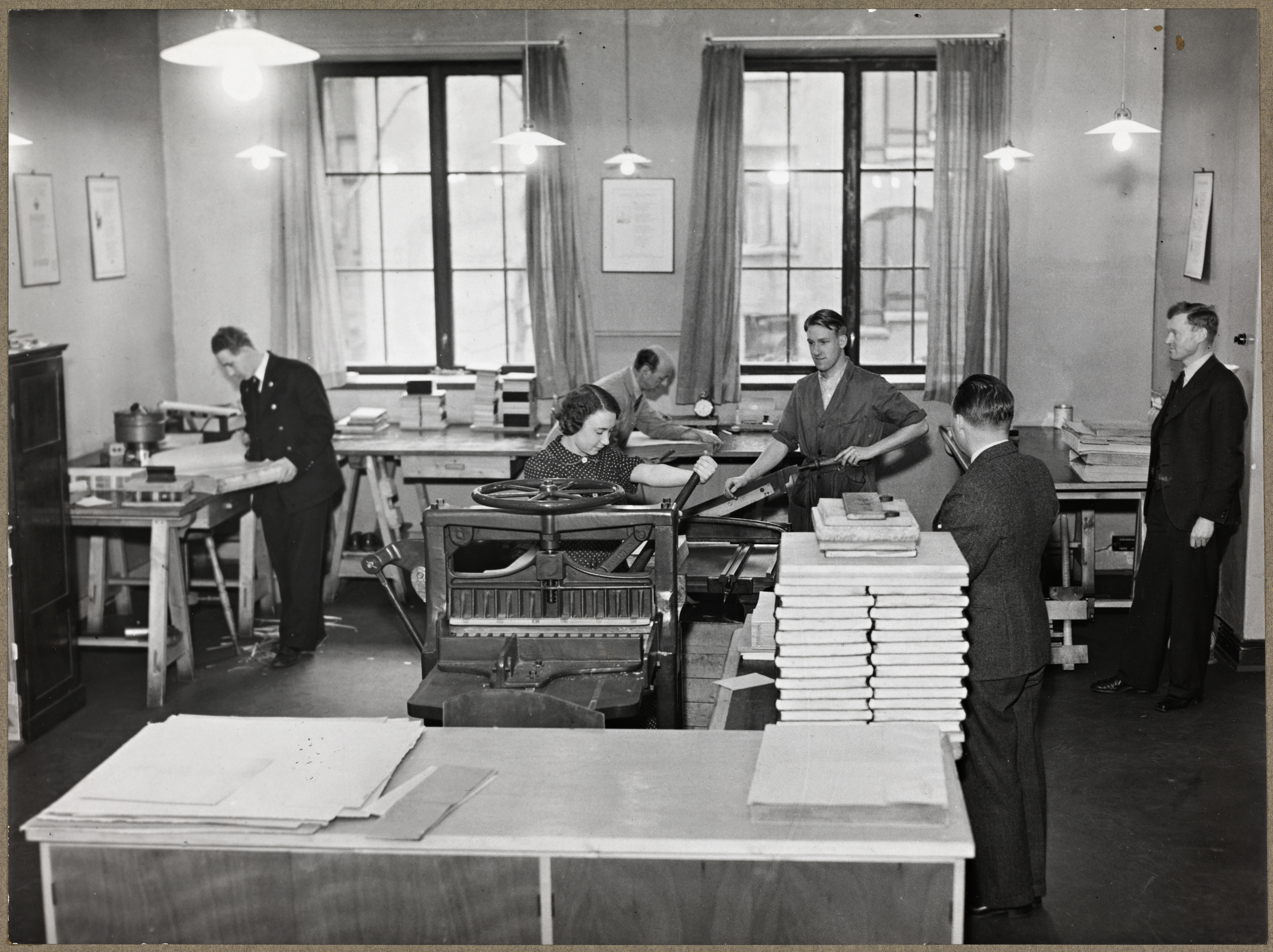 Beskrivelse / Description: I dag Nasjonalbiblioteket. Dato / Date: 1937 Sted / Place: Oslo, Henrik Ibsens gate 110, Nasjonalbiblioteket Fotograf / Photographer: Arbeiderbladet Digital kopi av original / Digital copy of original: s/h papirpositiv Eier / Owner Institution: Nasjonalbiblioteket / National Library of Norway Lenke / Link: Bildesignatur / Image Number: blds_06067